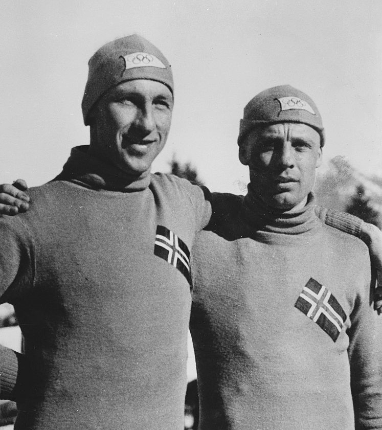 Ivar Ballangrud (left) of Norway and Charles Mathiesen (right) of Norway relax between events. Ballangrud won gold medals in the 500 Metres, 1500 Metres and 10000 Metres and Mathiesen a gold medal in the 5000 Metres Speed Skating events